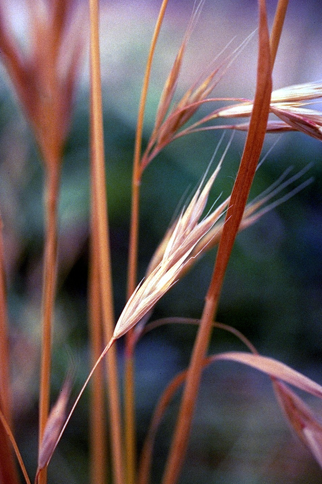 California brome (Bromus carinatus)